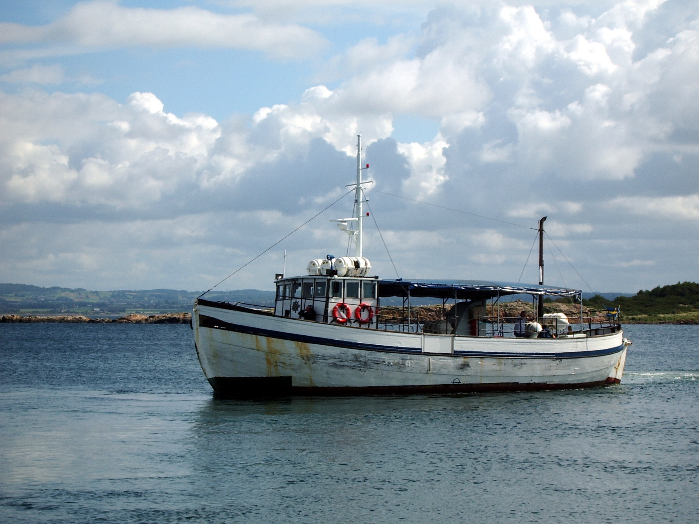 The passenger boat between Torekov and the island Hallands Väderö.